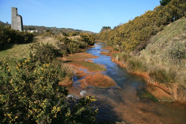 Carnon River near Point Mills Pollution from mine waters is clearly visible at this point in the Carnon River. To the left is the stump of the chimney at the Point Mills Arsenic Refinery. The chimney was a prominent local landmark until it was hit by lightning in December 1990.